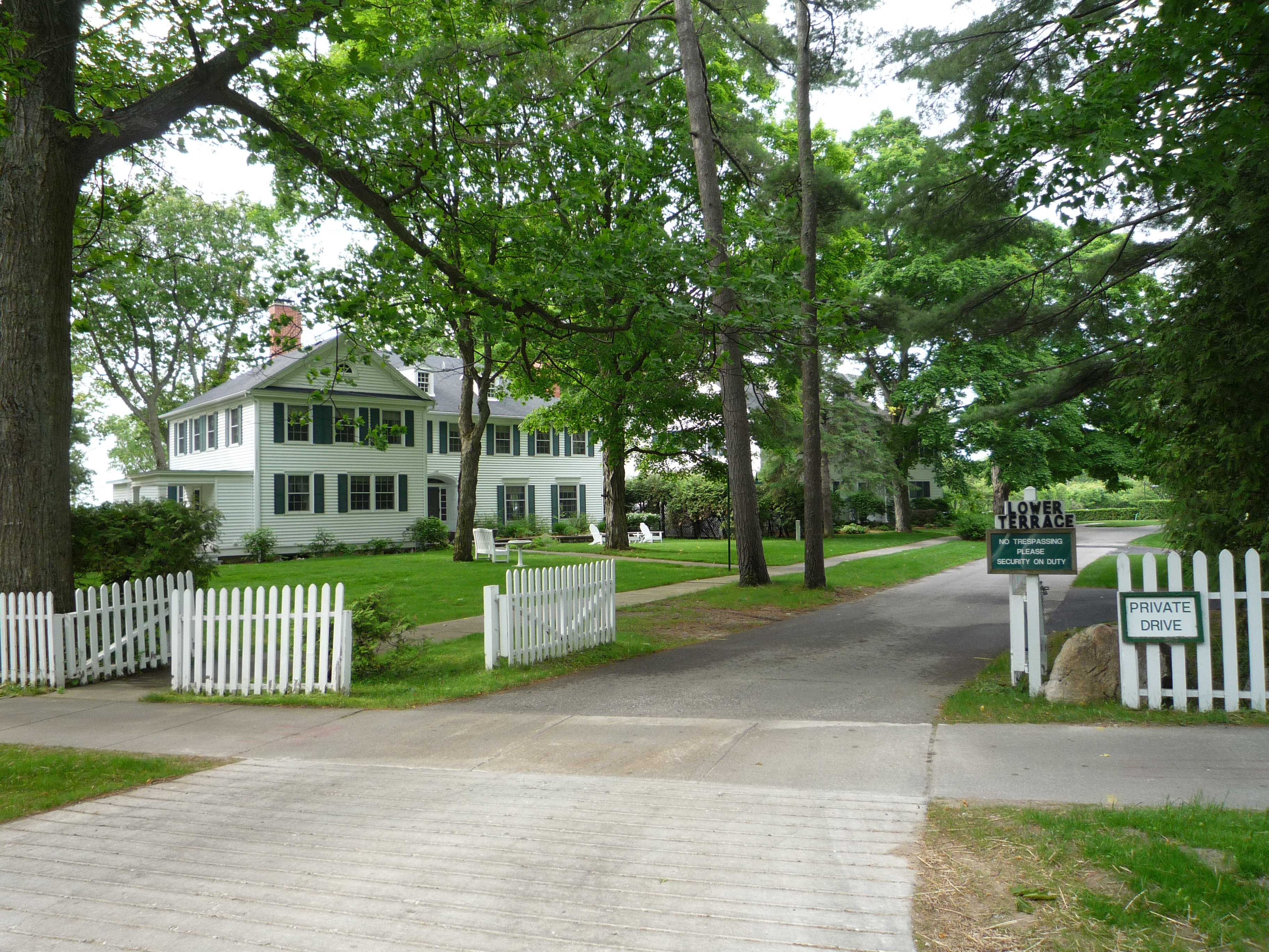 Portion of the Chicago Club, one of the original resort clubs in Charlevoix, Michigan, USA.